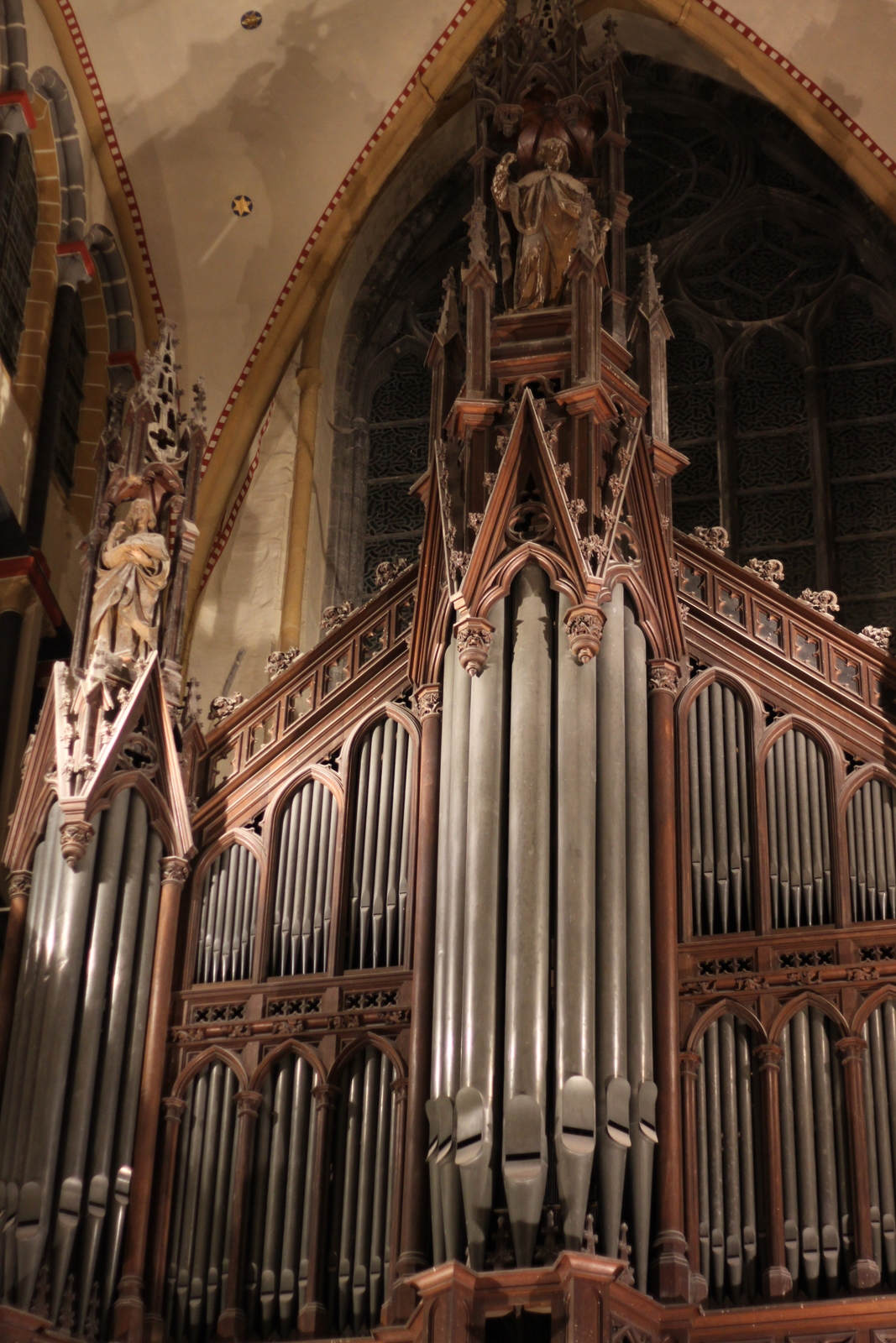 Orgel Sint-Niklaaskerk Gent Belgium.jpg